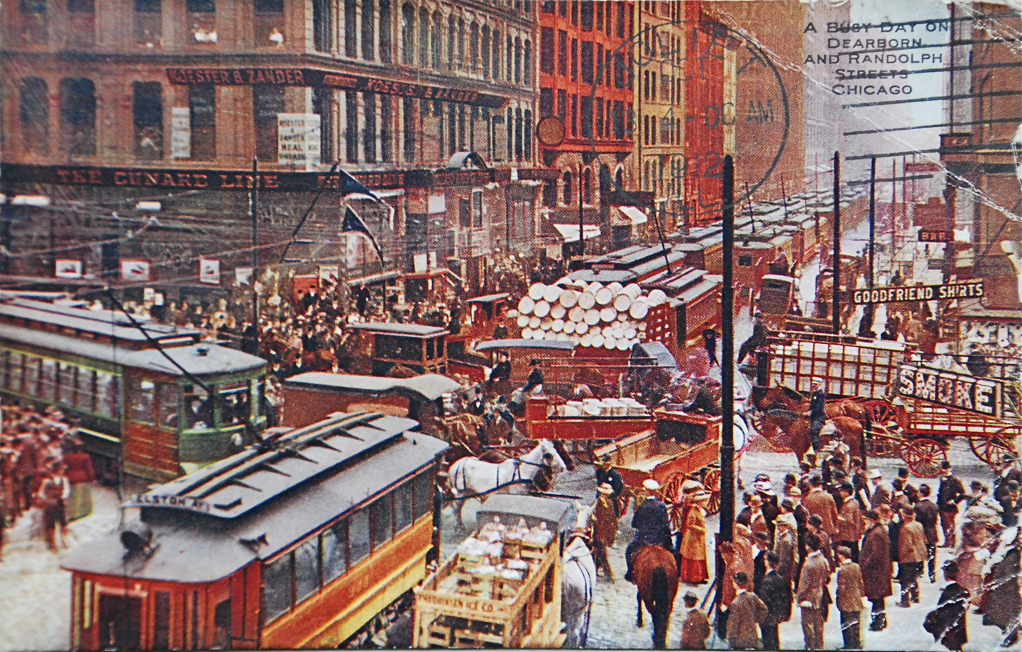 Photo of downtown Chicago Loop in 1900, corner of Dearborn & Randolph streets Other information before 1923